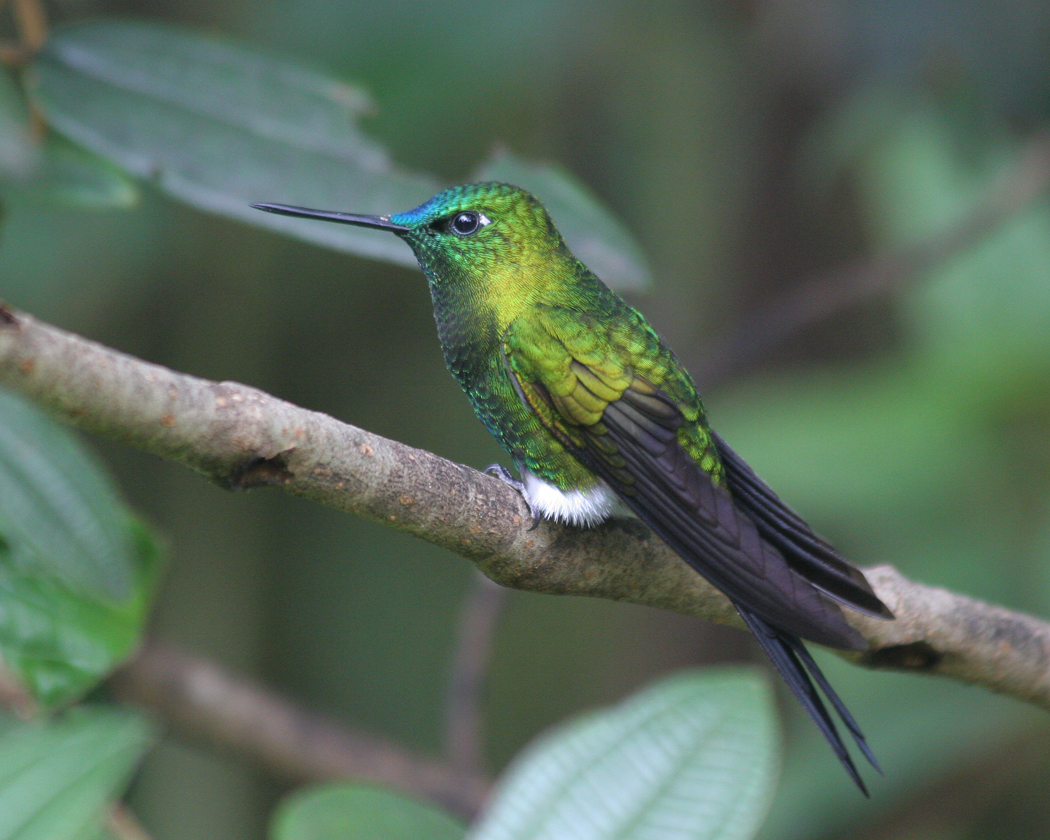 Sapphire-vented Puffleg photo taken at Yanacocha Reserve (west slope), Ecuador